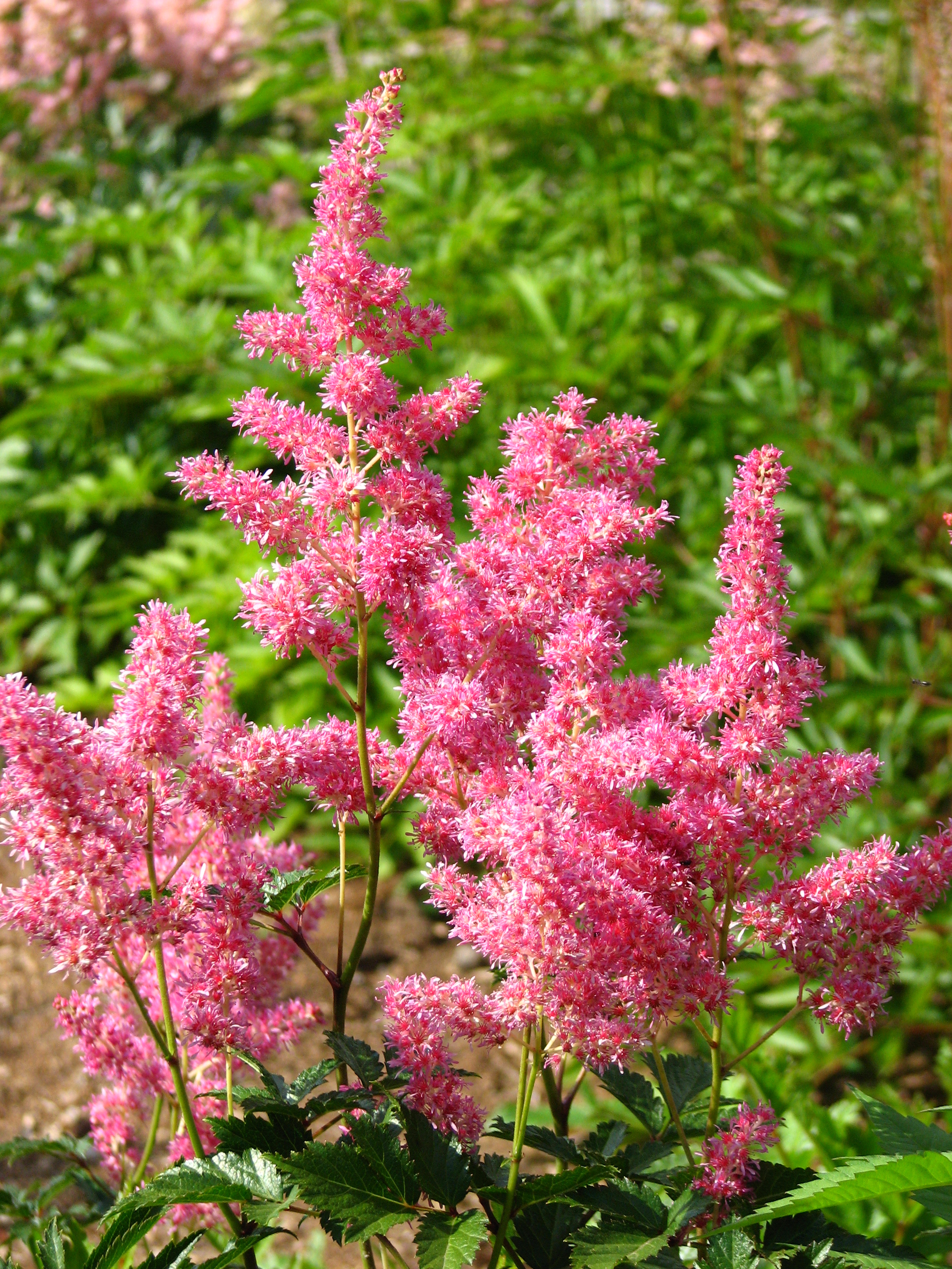 Astilbe 'Rheinland'. From the collection of the Main Botanical Garden of Academy of Sciences in Moscow (perennials plot).